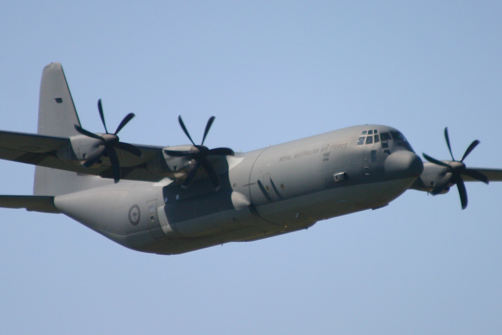 A Royal Australian Air Force C-130J Hercules at the 2008 Amberley Air Show